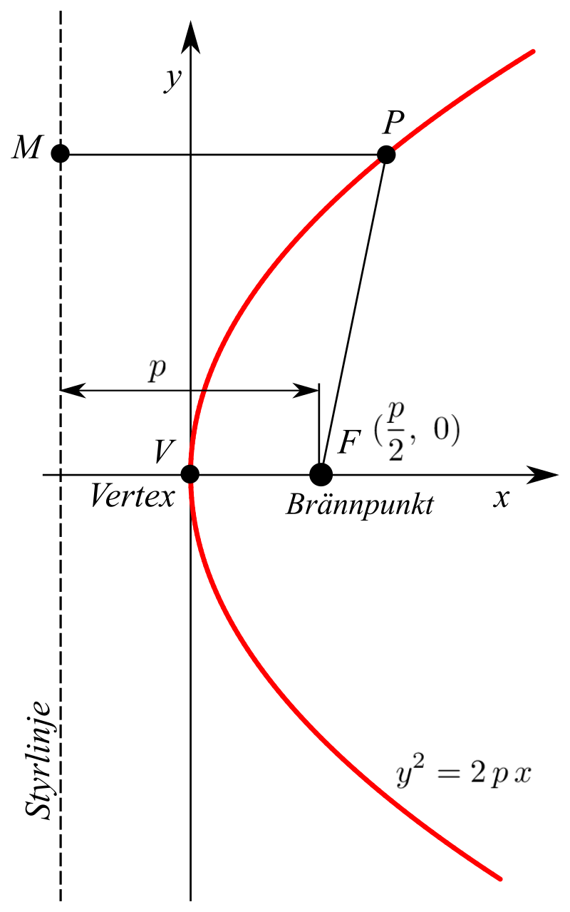 parable